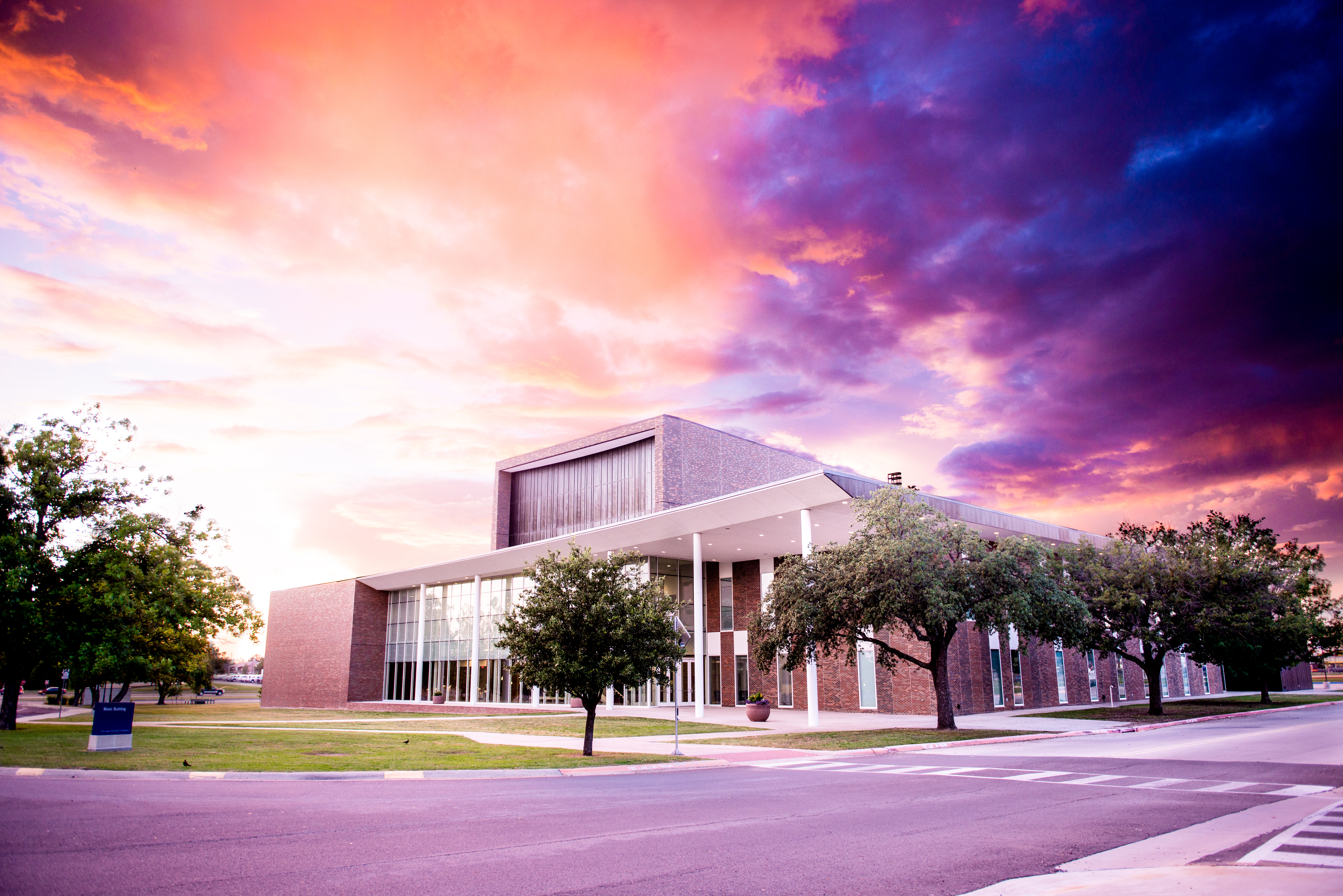 14292-Music Building sunset 1889-Edit.jpg Texas A&M University–Commerce Music Building at sunset